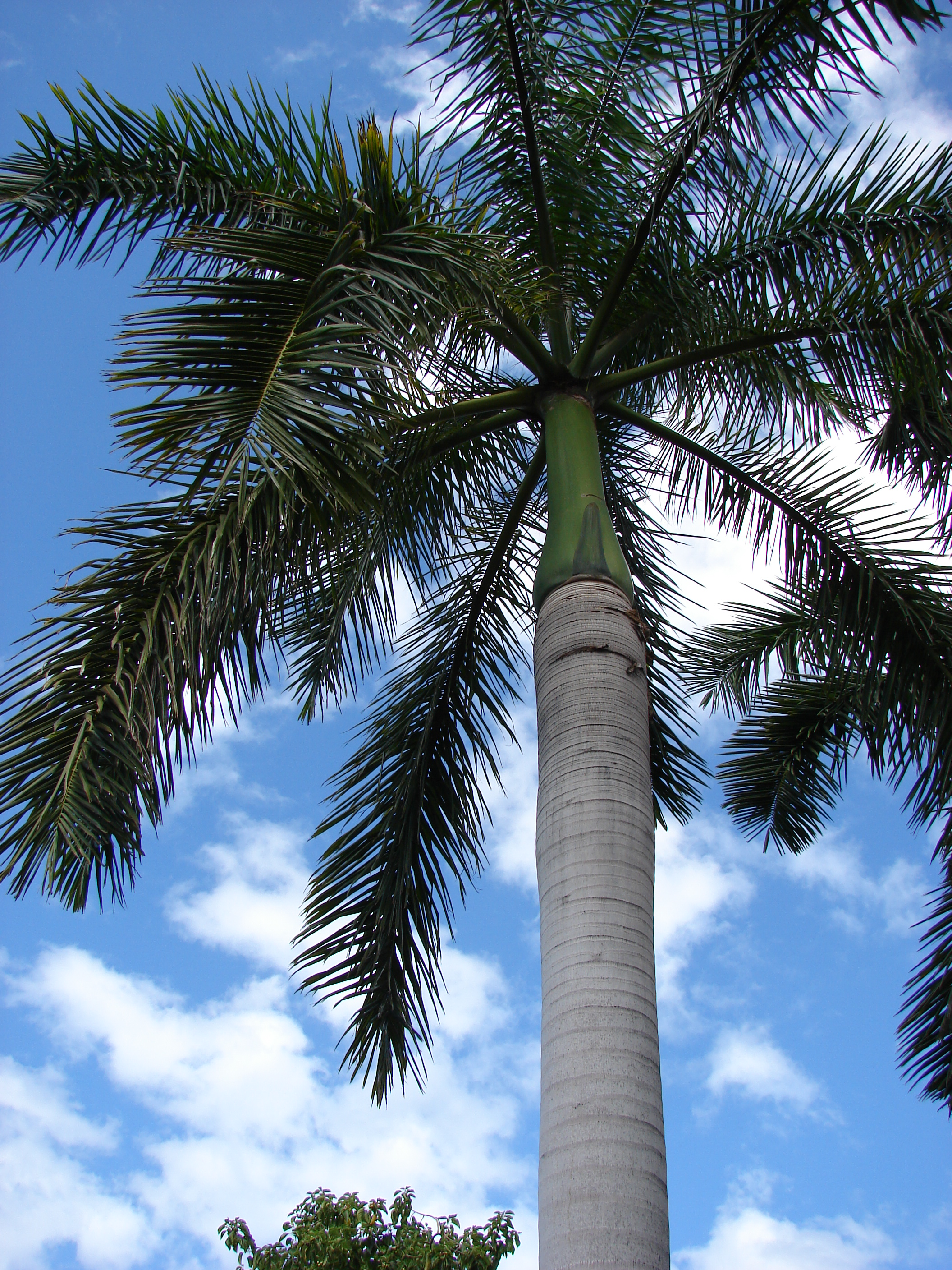 Roystonea regia (habit). Location: Maui, Lahaina Aquatic Center